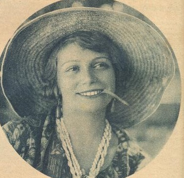 Victoria Pinillos- actriz española